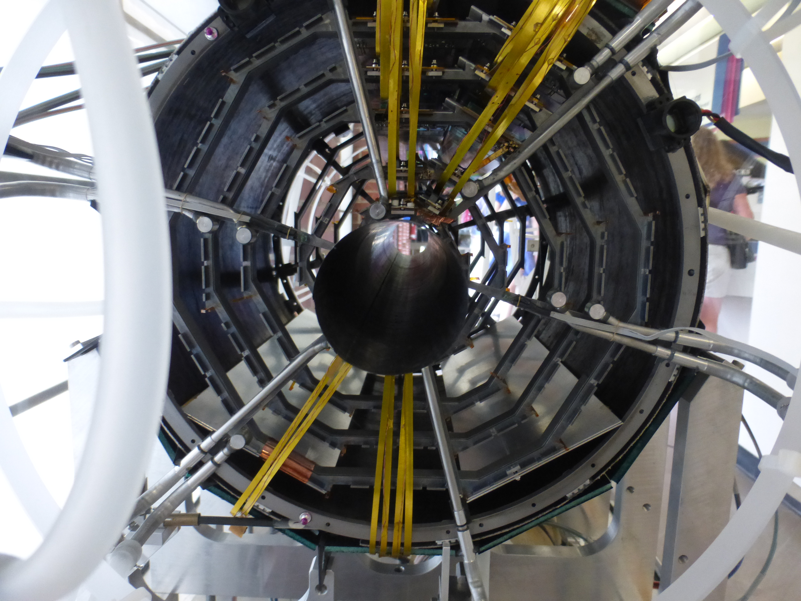 Collider Detector at Fermilab (CDF) silicon vertex detector. It was part of the Tevatron, now on display at Lederman Science Center.